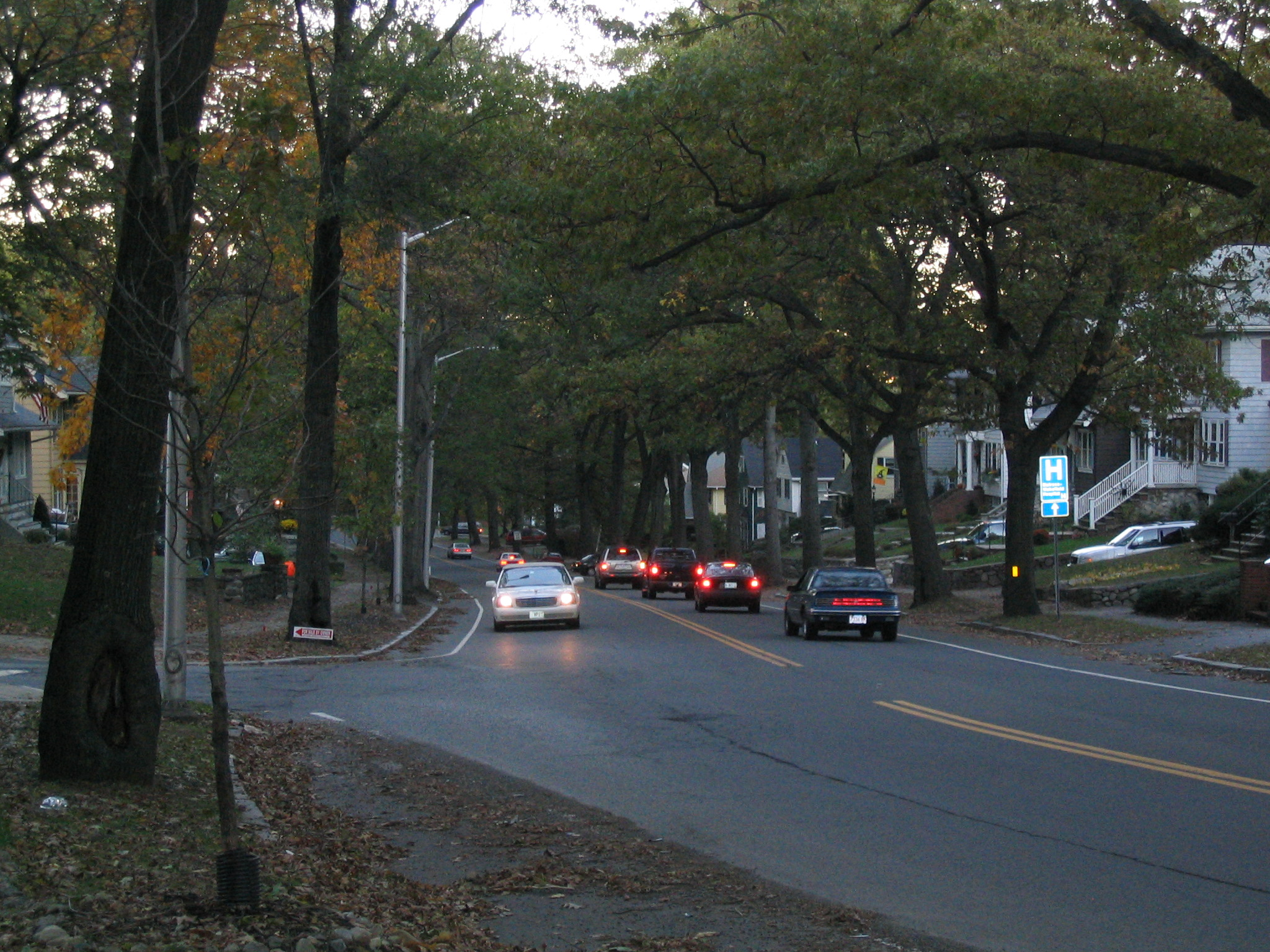 I took this picture while standing at the Stoneham/Melrose line on Lynn Fells Parkway near Boston, Massachusetts, USA. Picture taken with a Canon Powershot A70 on 10/31/05 at 5:24 pm.